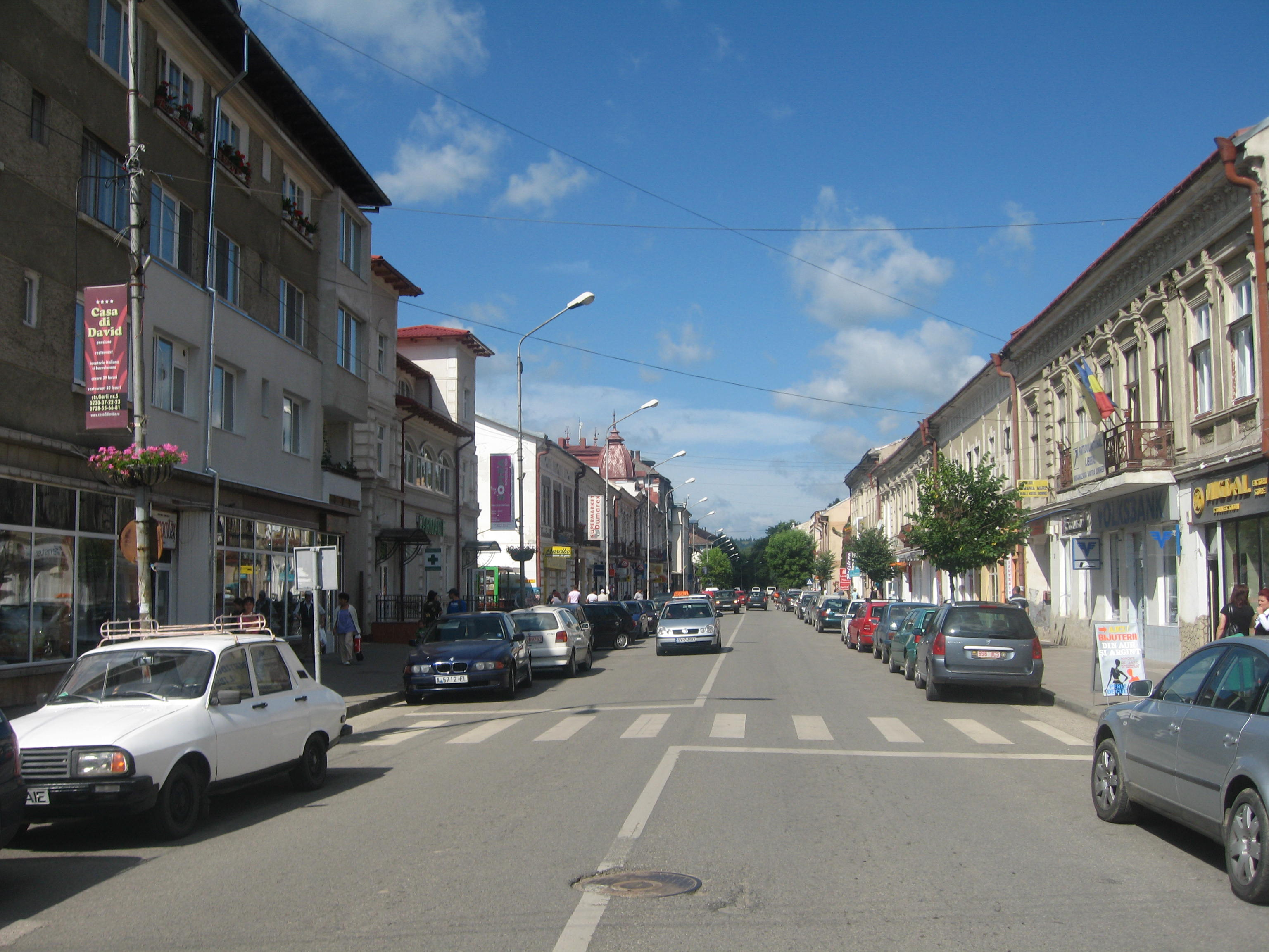 Mihai Eminescu Street in Vatra Dornei, Romania